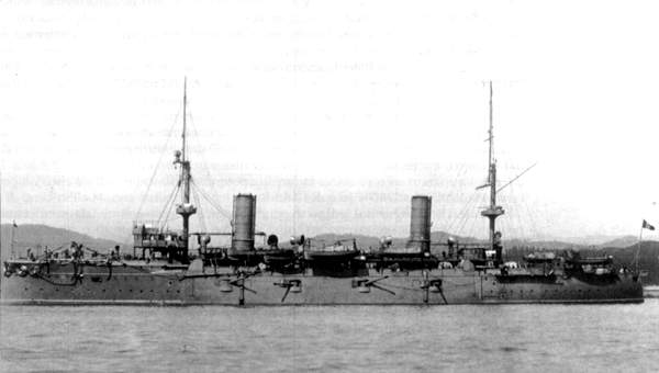 Italian armored cruiser Carlo Alberto